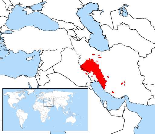 self-made based on a map in "Lurs" book page 74-73.